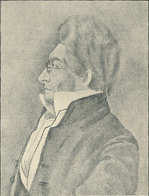 Peter Wilhelm Lund, efter litografi.